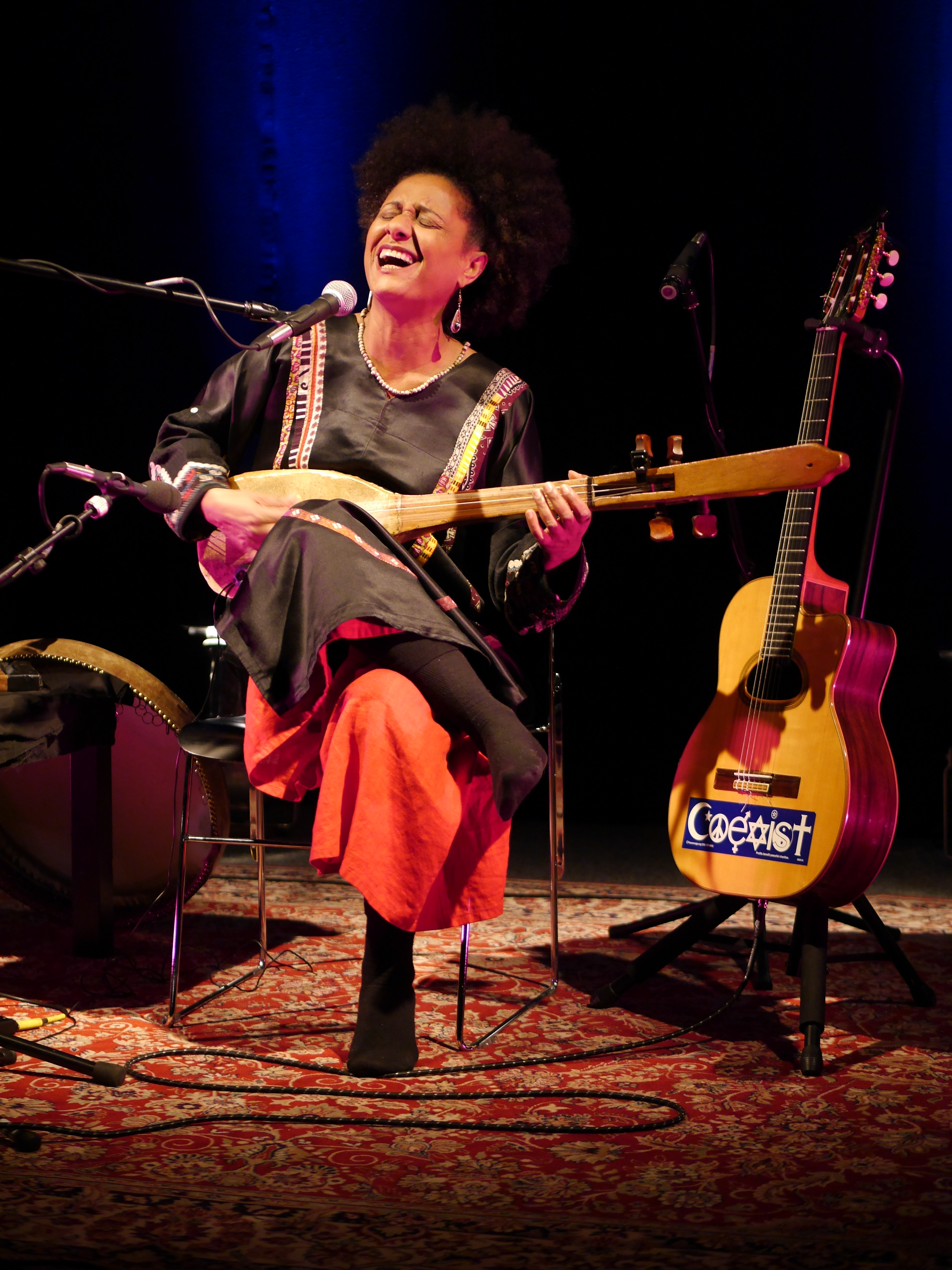 Nawal (Komoren) beim Klangkosmos - Weltmusik in NRW am 17.02.2017 in der Kulturfabrik Hangar 21, Detmold (Germany). Nawal – Gesang, Gambusi, Gitarre, Daf, Mbira